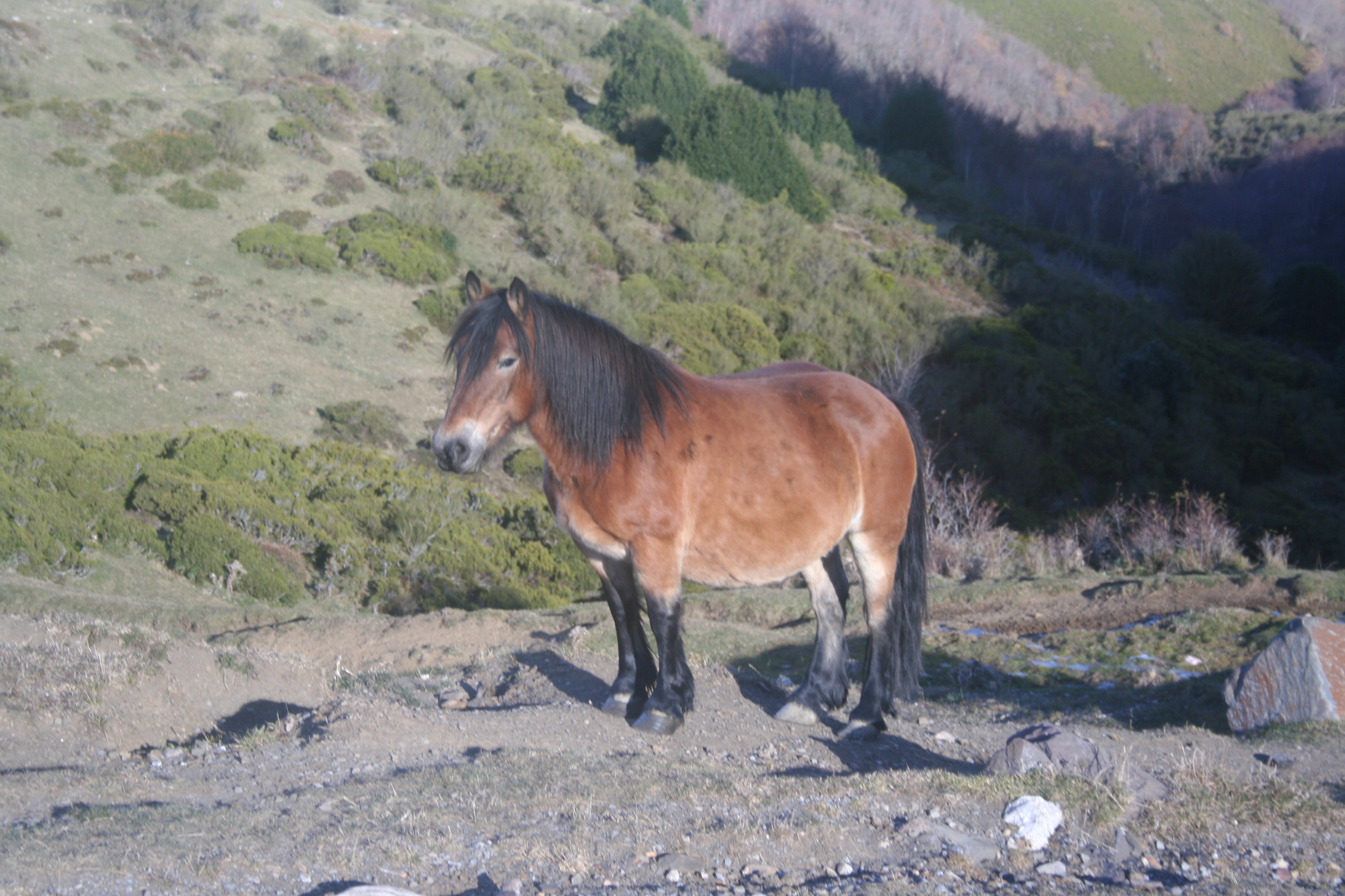 Probably not a purebred Asturcon : too heavy.